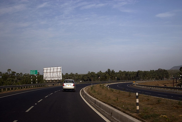 NH5 at Anandapuram near Visakhapatnam, Andhra Pradesh. NH 5 has been renumbered as NH-16